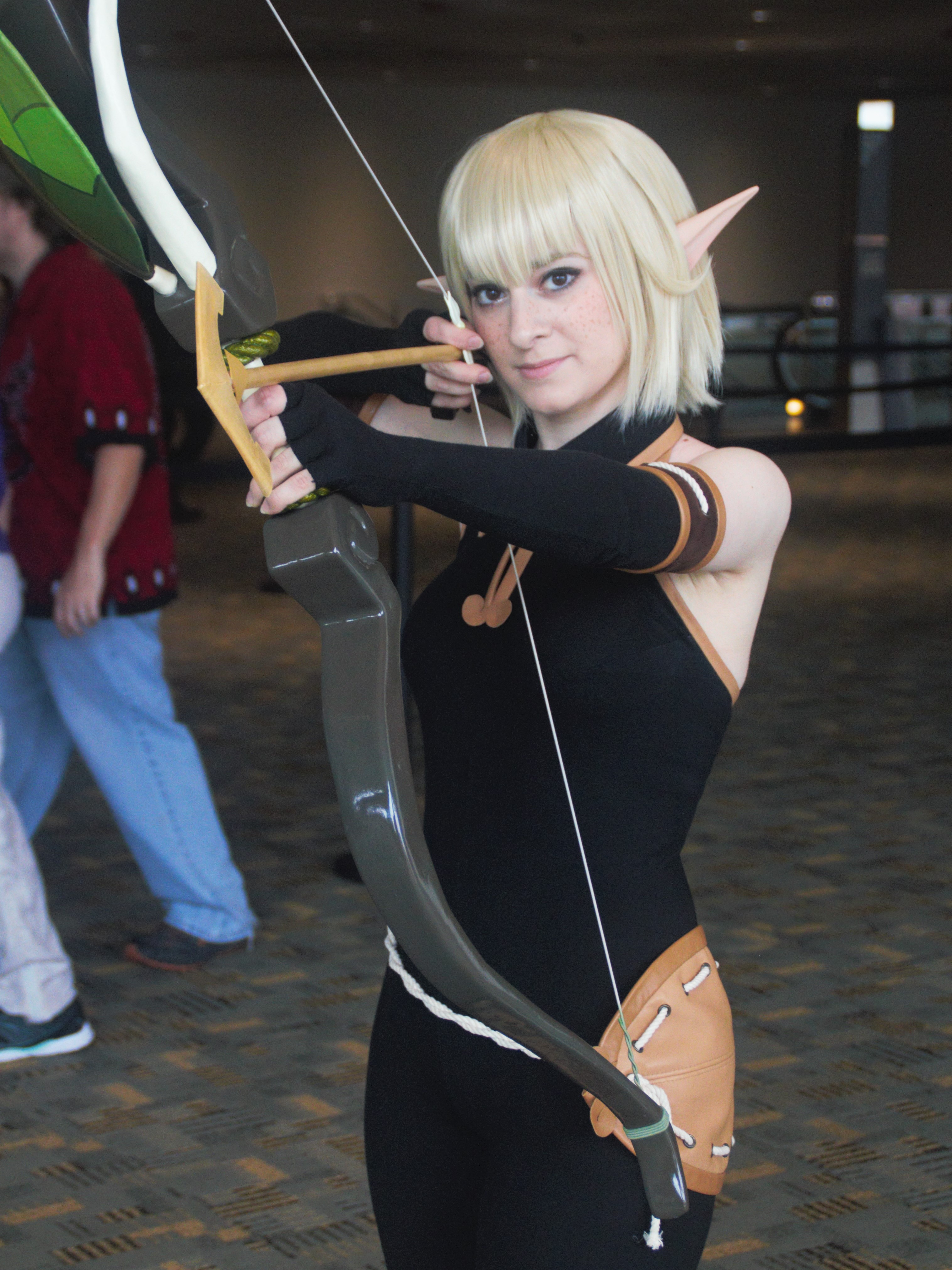 Cosplay of Evangelyne from Wakfu at Otakon 2016